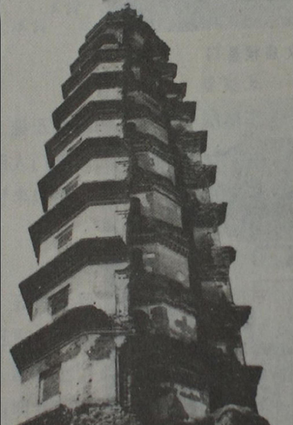 Liaodi Pagoda, 1935